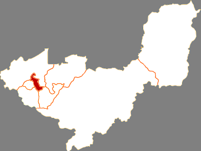 Location of Sifangtai District in Shuangyashan City, China